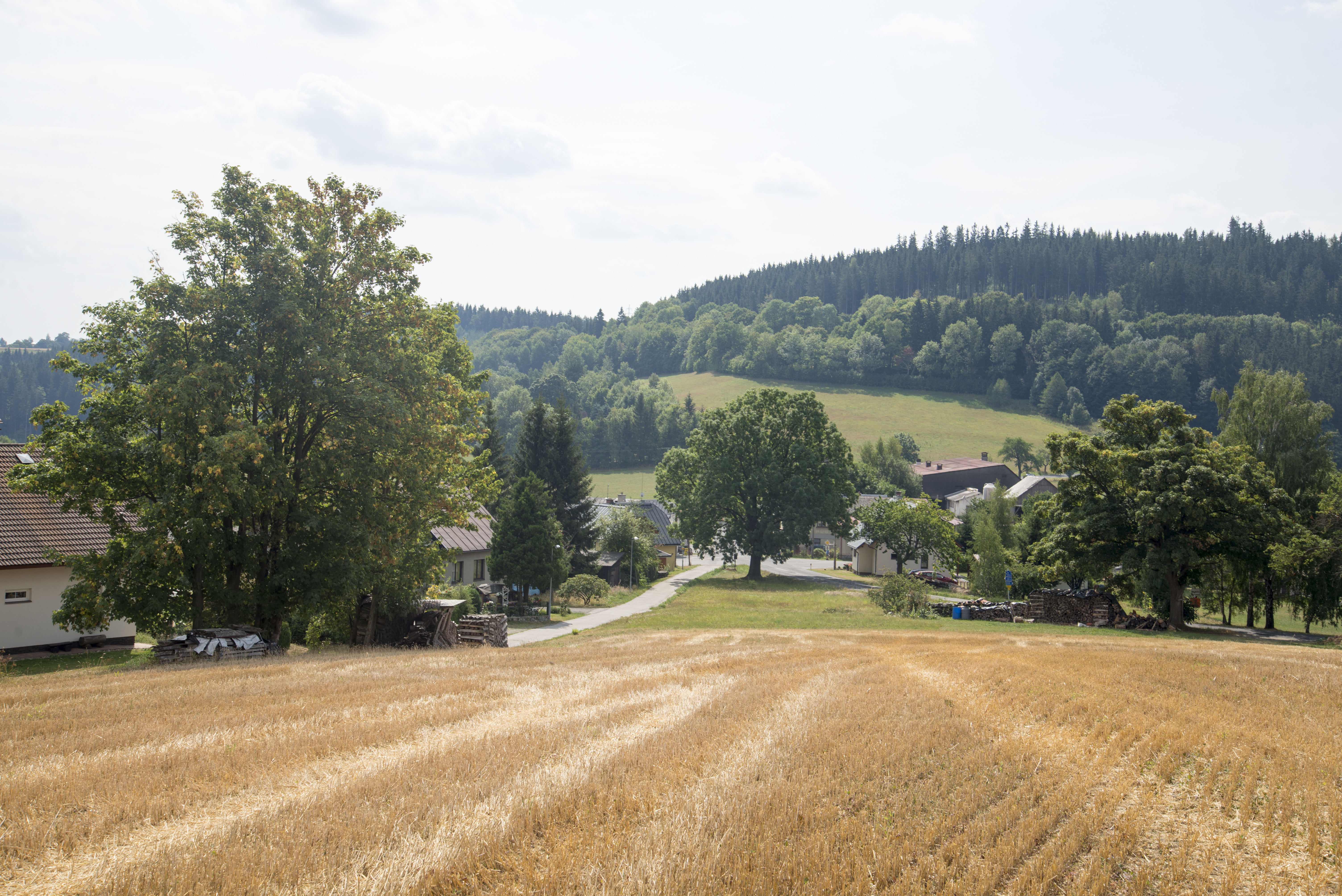 View from North, Sklenařice, village, part of the city Vysoké nad Jizerou, Semily district, Liberec Region